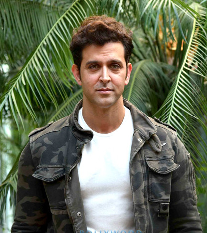 Hrithik Roshan in 2016 promoting Mohenjo Daro